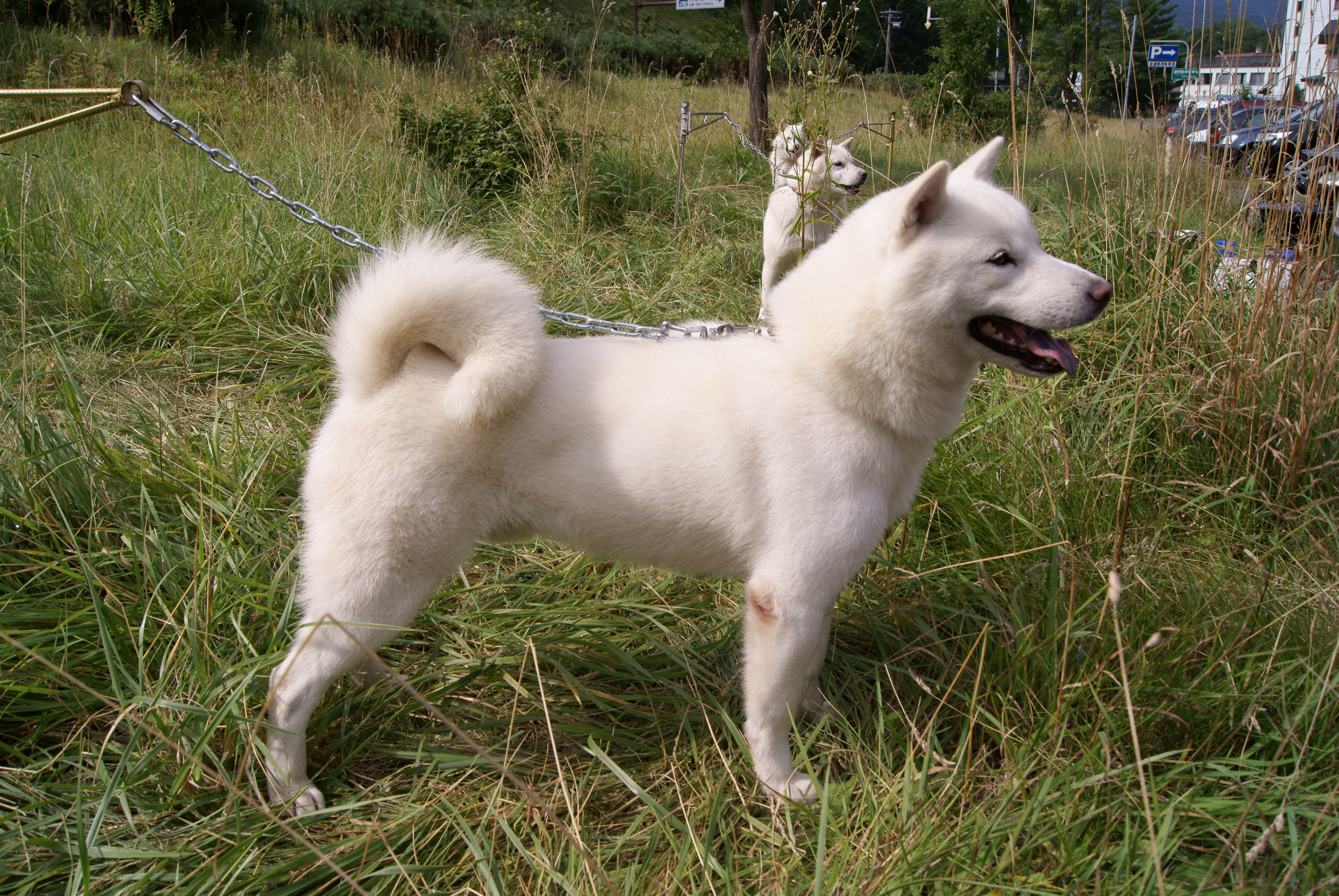 Hokkaido Dog